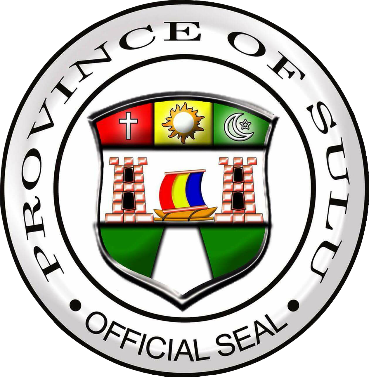 Provincial seal of Sulu, Philippines.